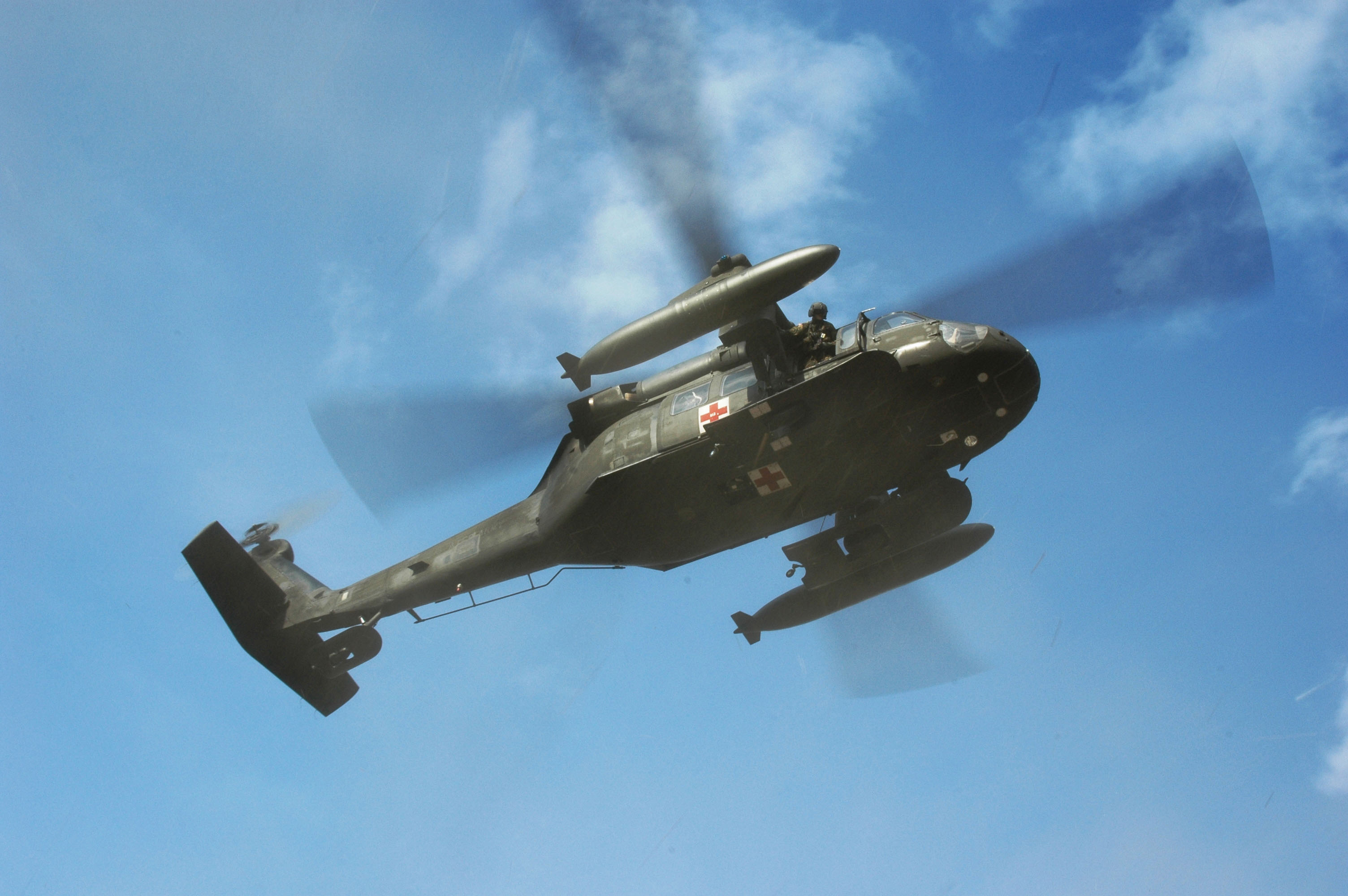 US Army UH-60 Black Hawk North Pole, Alaska - A crew member from an Army UH- 60 Black Hawk helicopter from 1st Battalion, 52nd Aviation regiment scans the landing zone used to evacuate "casualties" from a homeland defense attack scenario conducted in collaboration with civilian first responders from North Pole and Fairbanks, Alaska. The air crew was participating in exercise Alaska Shield / Northern Edge 07. The exercise is a state of Alaska / US Northern Command sponsored homeland defense / defense support of civil authorities exercise; part of the national-level Ardent Sentry / Northern Edge 07 exercise (definition from US Northern Command)